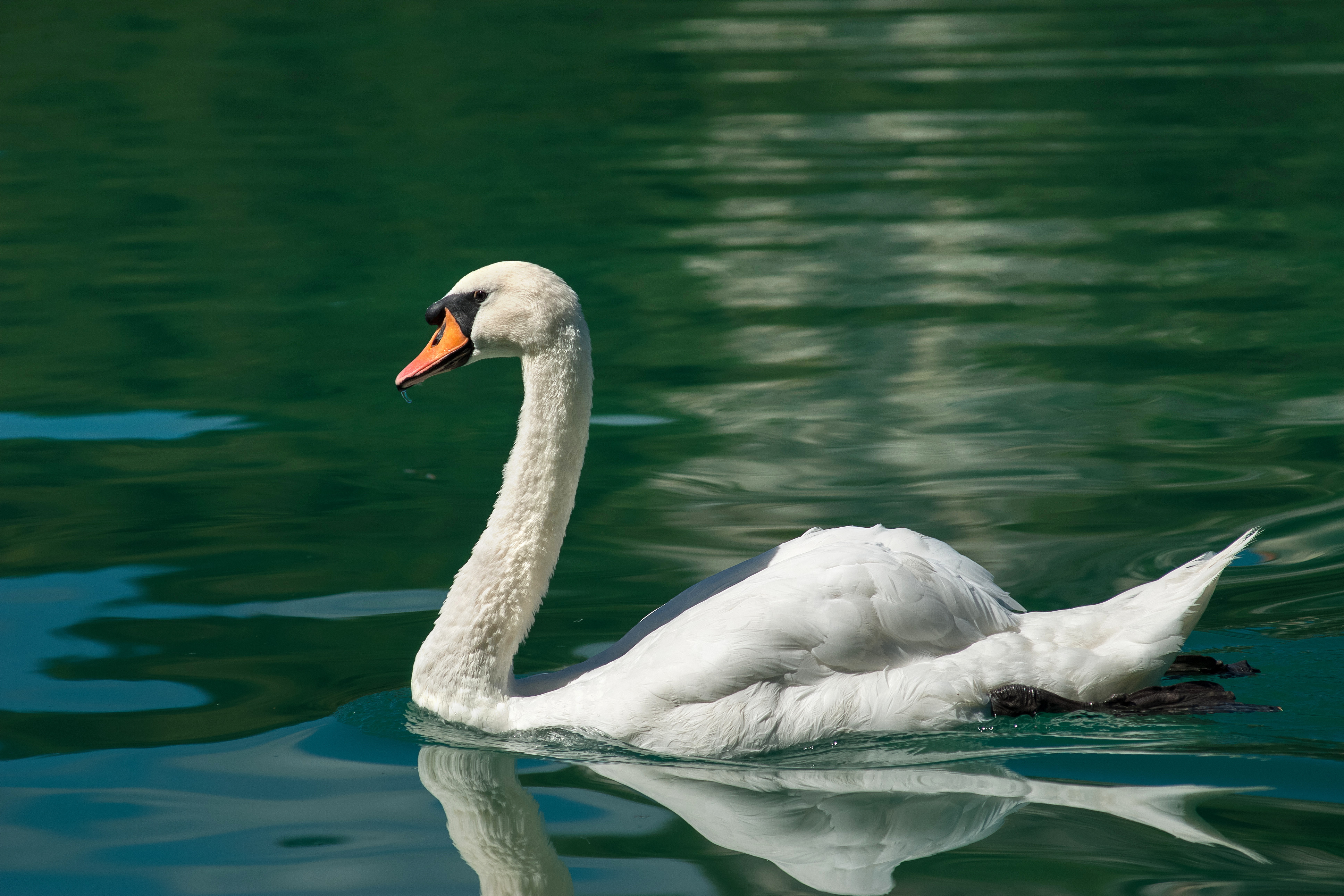 Mute Swan on Lake Bled